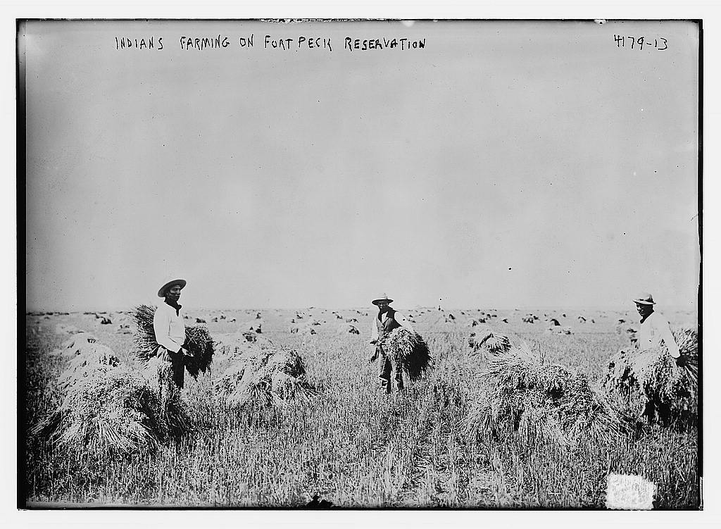 Indians farming on the Fort Peck Indian Reservation in Montana.